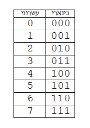 binary table